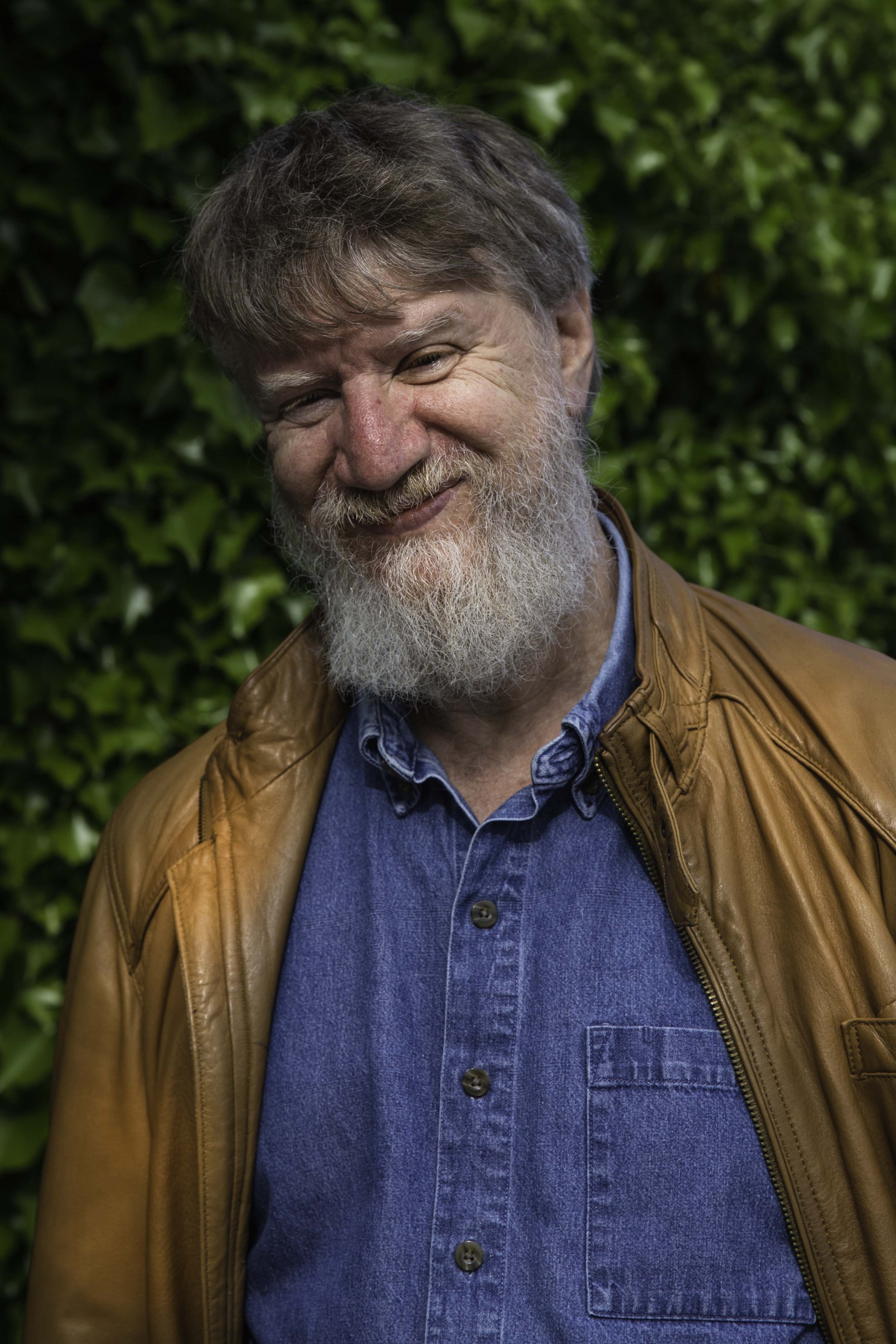 Russian writer Vladimir Sharov in Lavigny 2016 by Evgeniya Shishkina